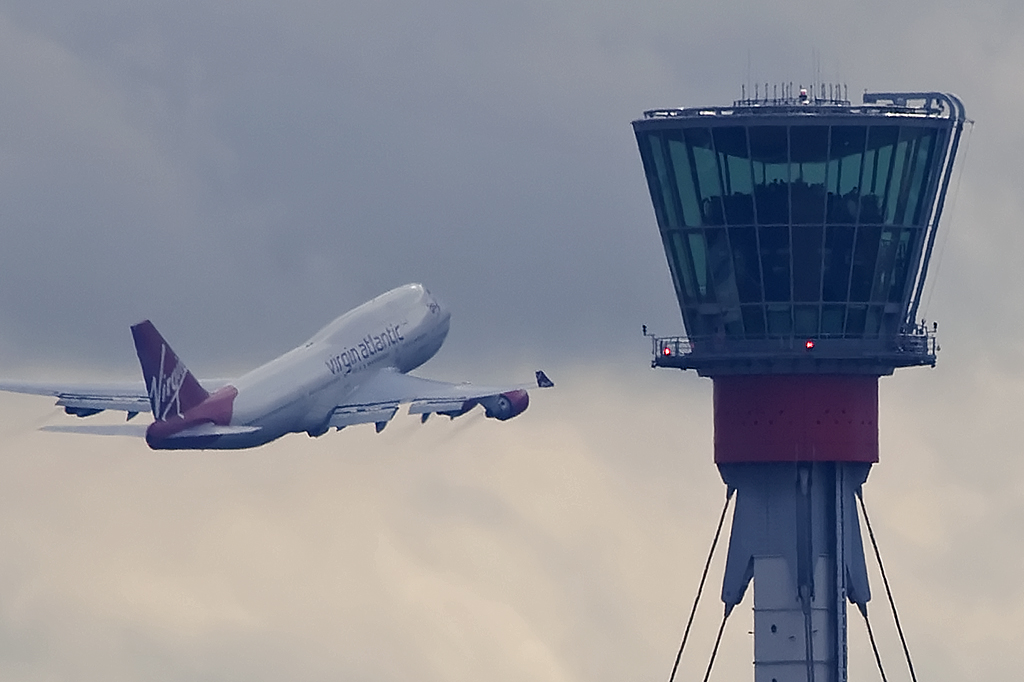 London-Heathrow